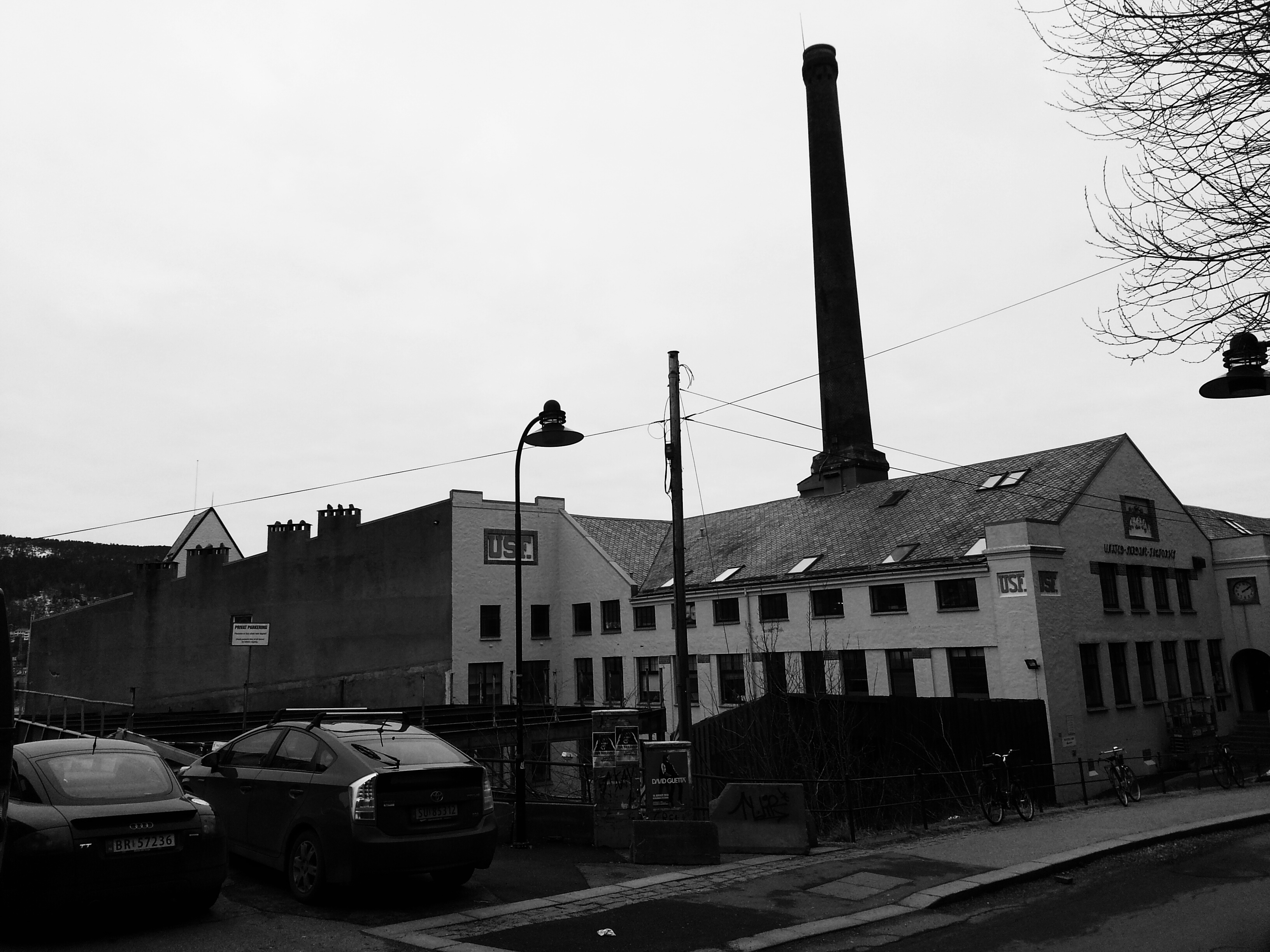 USF Verftet, Bergen, Norway